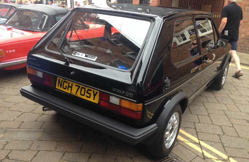 1983 Volkswagen Golf GTI Taken during the Warwick Classic Car Show